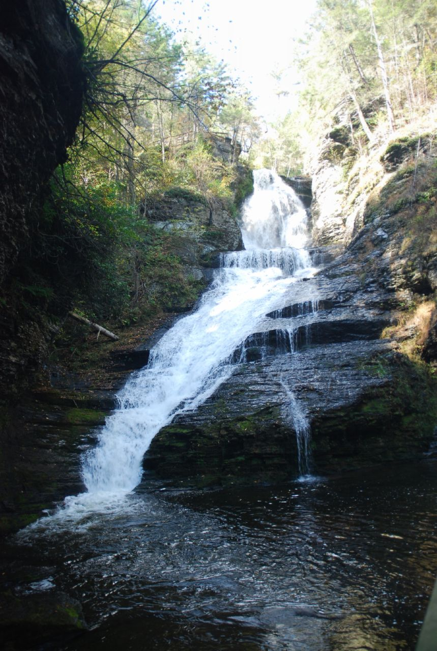 Dingmans Falls, Delaware Water Gap National Recreation Area, Dingmans Ferry, Pennsylvania